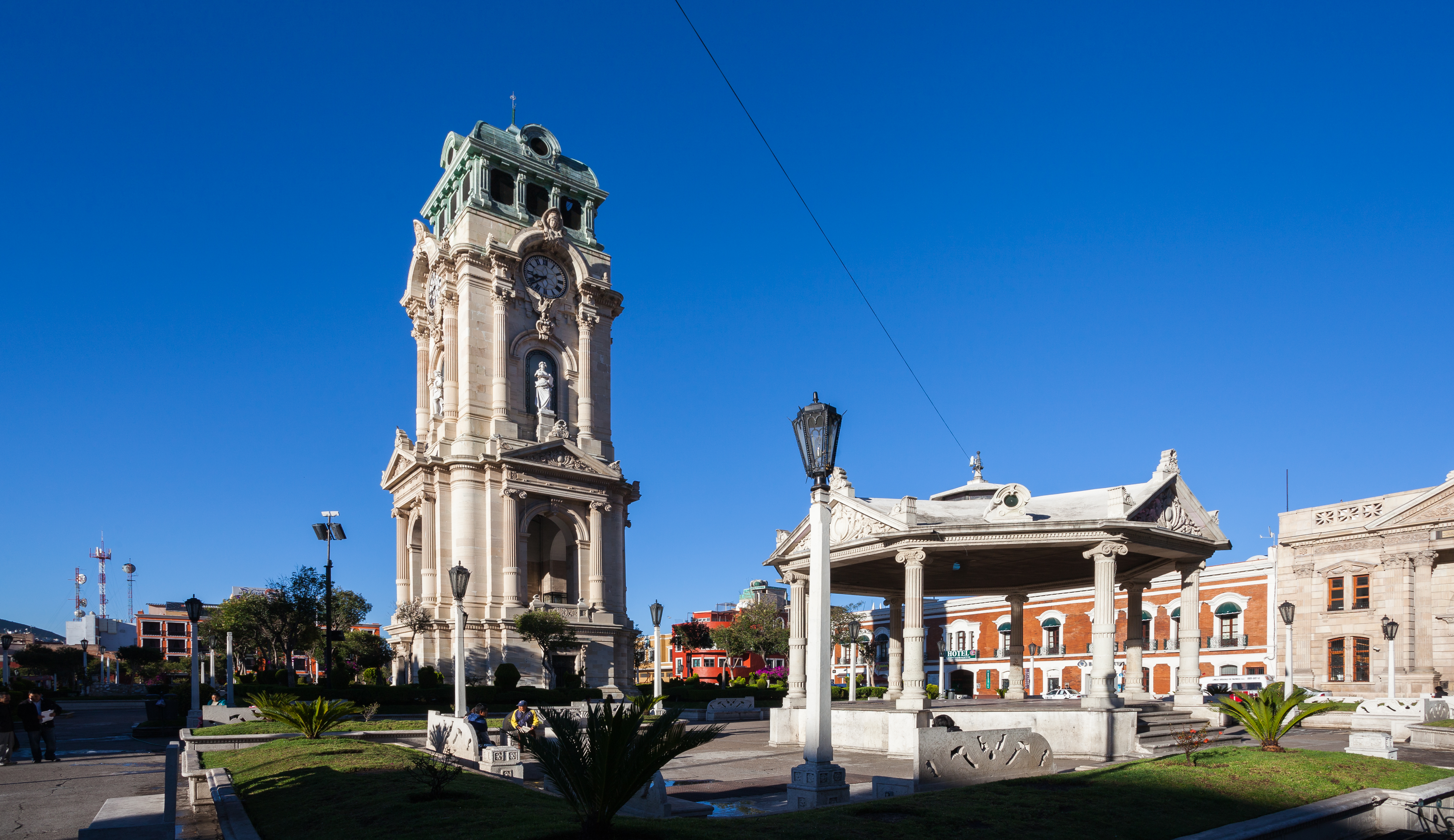 Monumental Clock, Pachuca, Hidalgo, Mexico